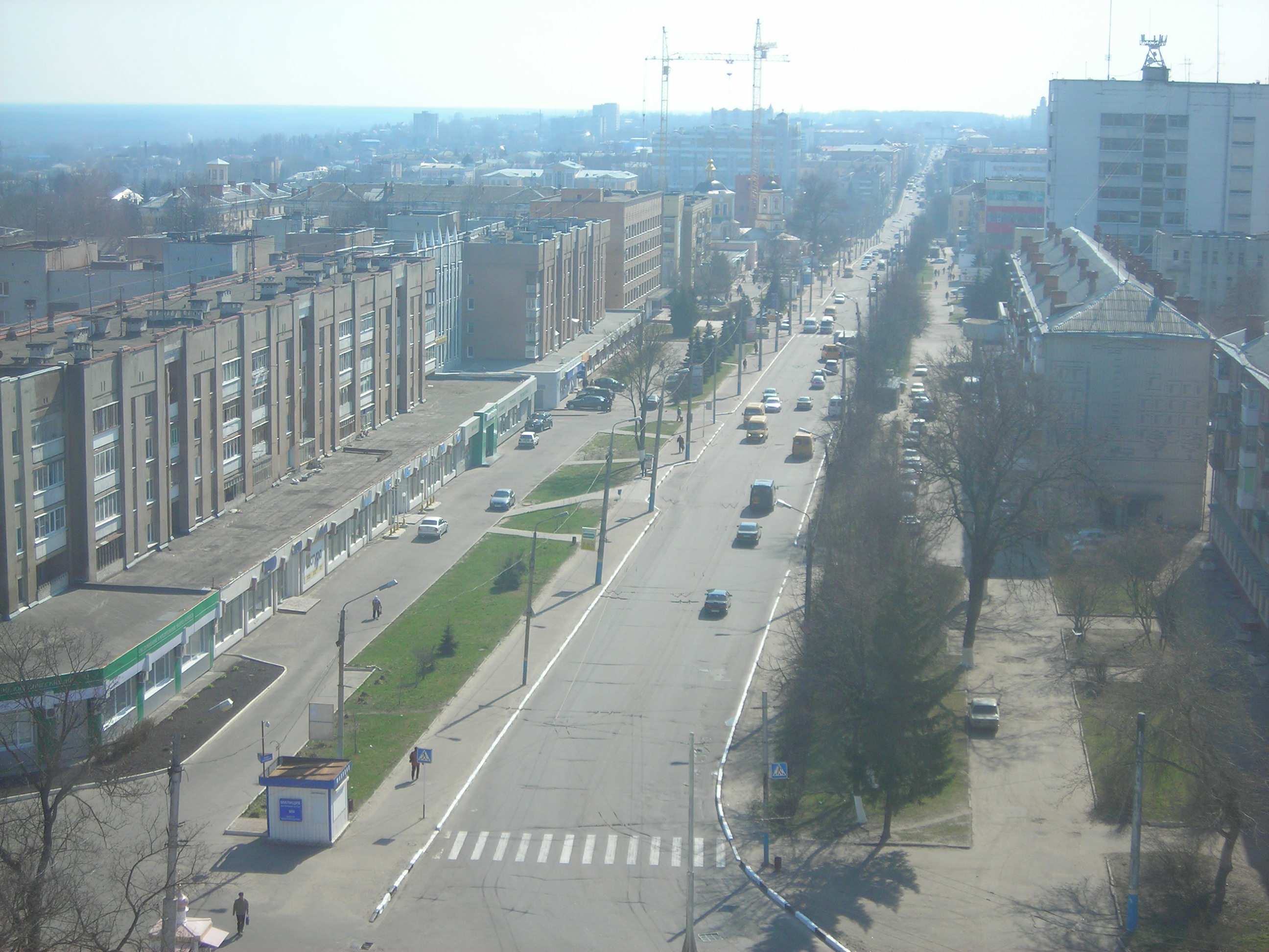 Prospekt Lenina in Bryansk